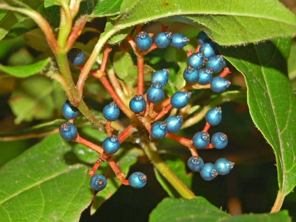 Viburnum tinus - Genova, Italy